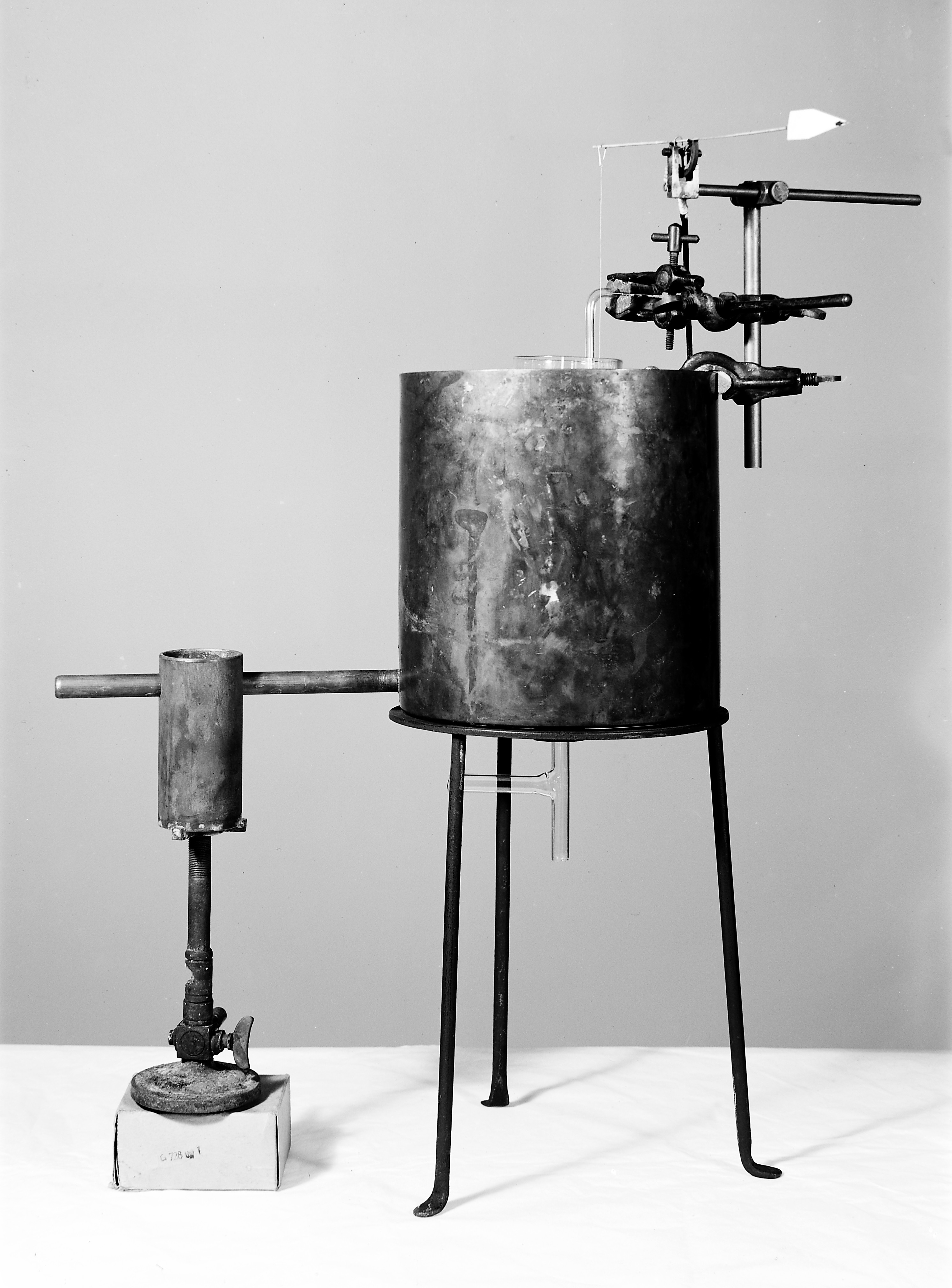 Constant temperature bath for isolated organs. Used by Sir Henry Dale for testing the activity of samples of pituitary extracts. The isolated uterus of the virgin guinea-pig was found to be suitable. Wellcome Images Keywords: Henry Dale; Physiology